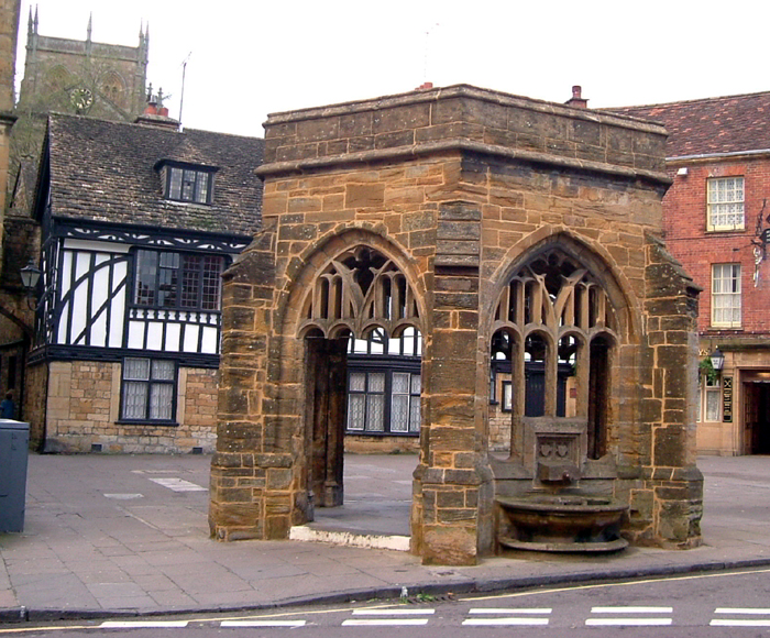 The Conduit, Sherborne, Dorset.